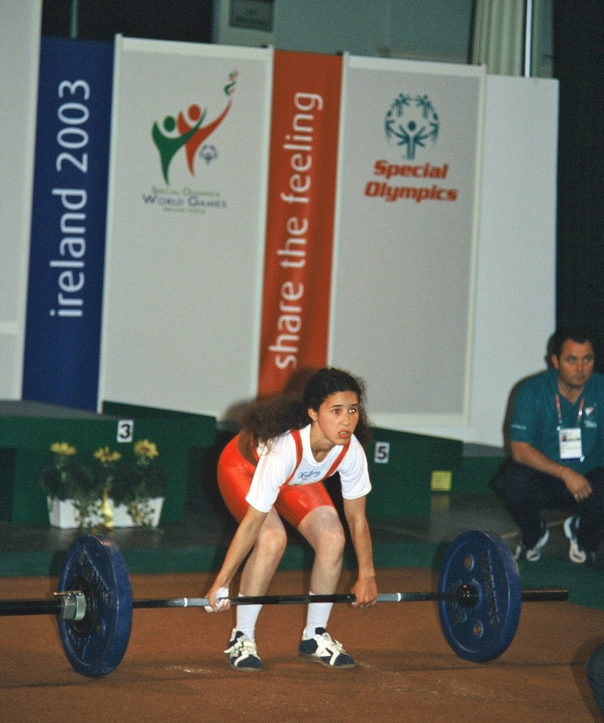 Women's weightlifting at the Special Olympics in Dublin, Ireland, summer 2003.